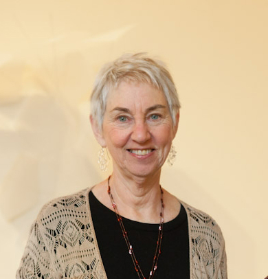 Photograph of Susan Alexjander, auditory artist, at the opening for the 2011 Elemental Matters exhibit at the Chemical Heritage Foundation, Philadelphia, PA, USA, 4 February 2011.